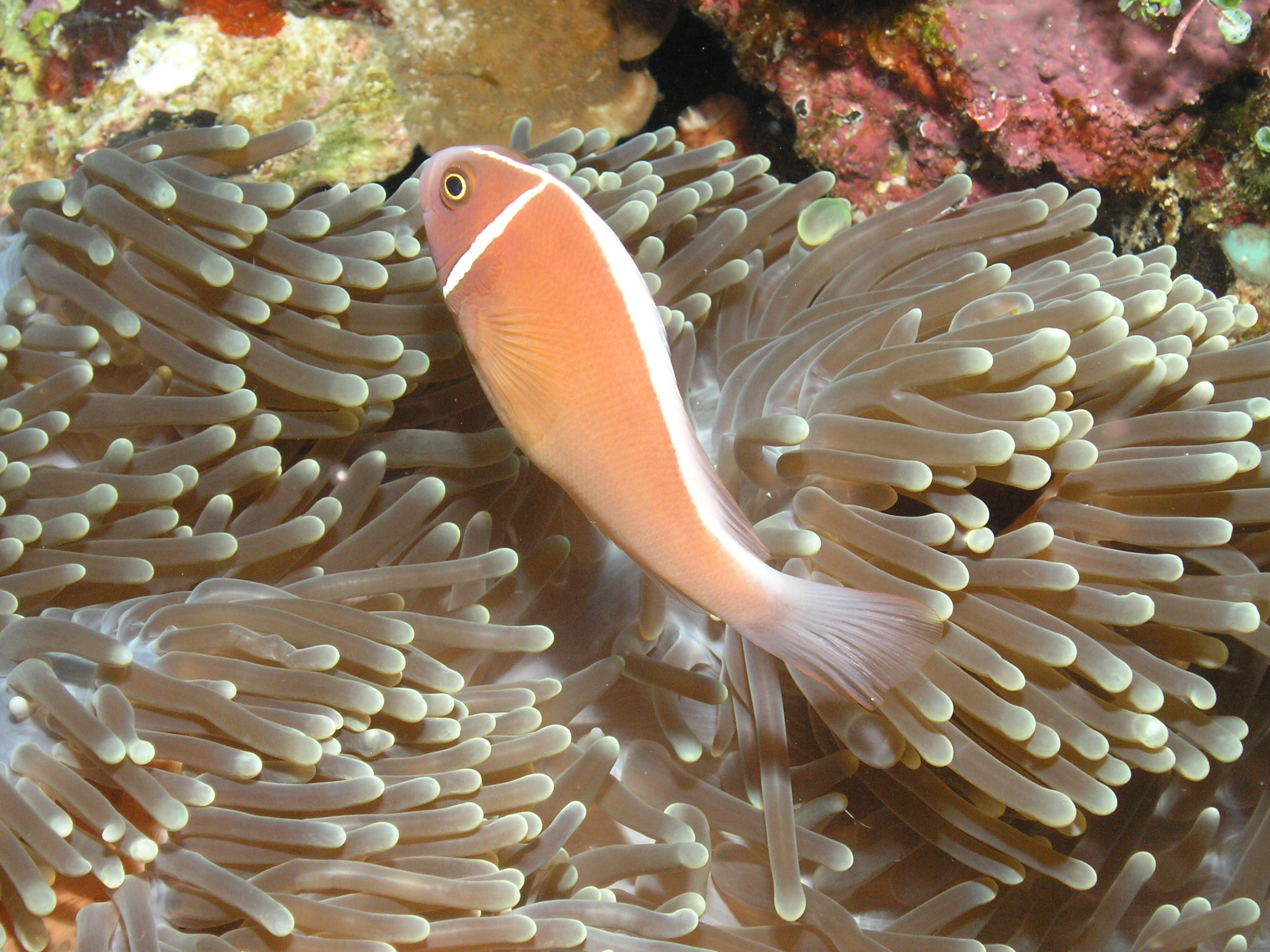 Pink Anemonefish (Amphiprion perideraion) at Bunaken Marine Park, North SulawesiBahasa Indonesia: Ikan badut (Amphiprion perideraion) di Taman Laut Bunaken, Sulawesi Utara